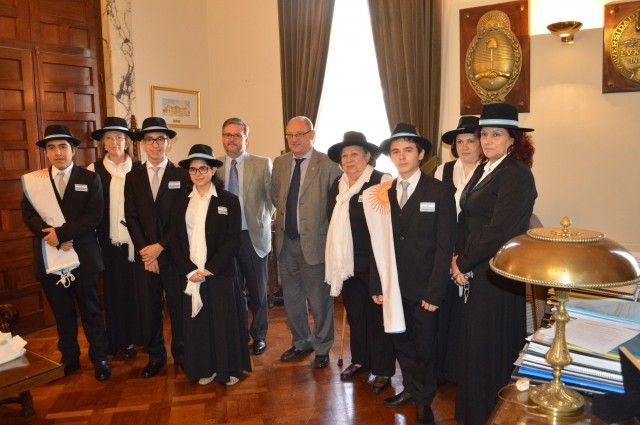 logo of argeo